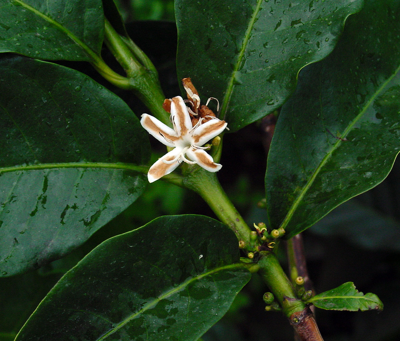 Robusta Coffee. Photo taken in the botanic garden in Madeira.